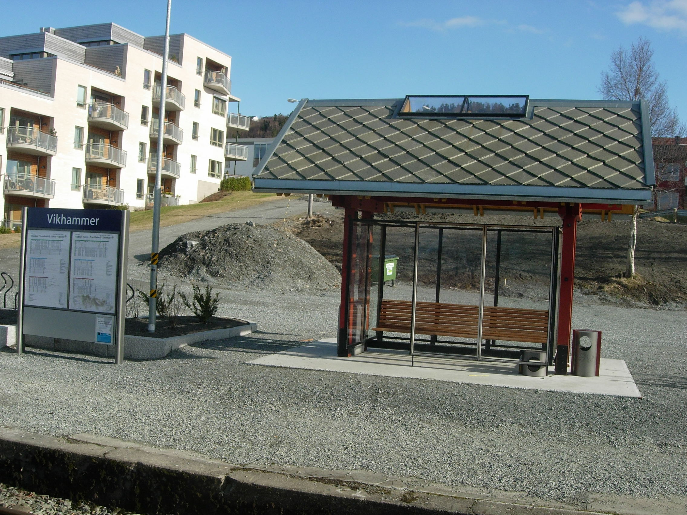 Vikhammer station on Nordlandsbanen, Norway